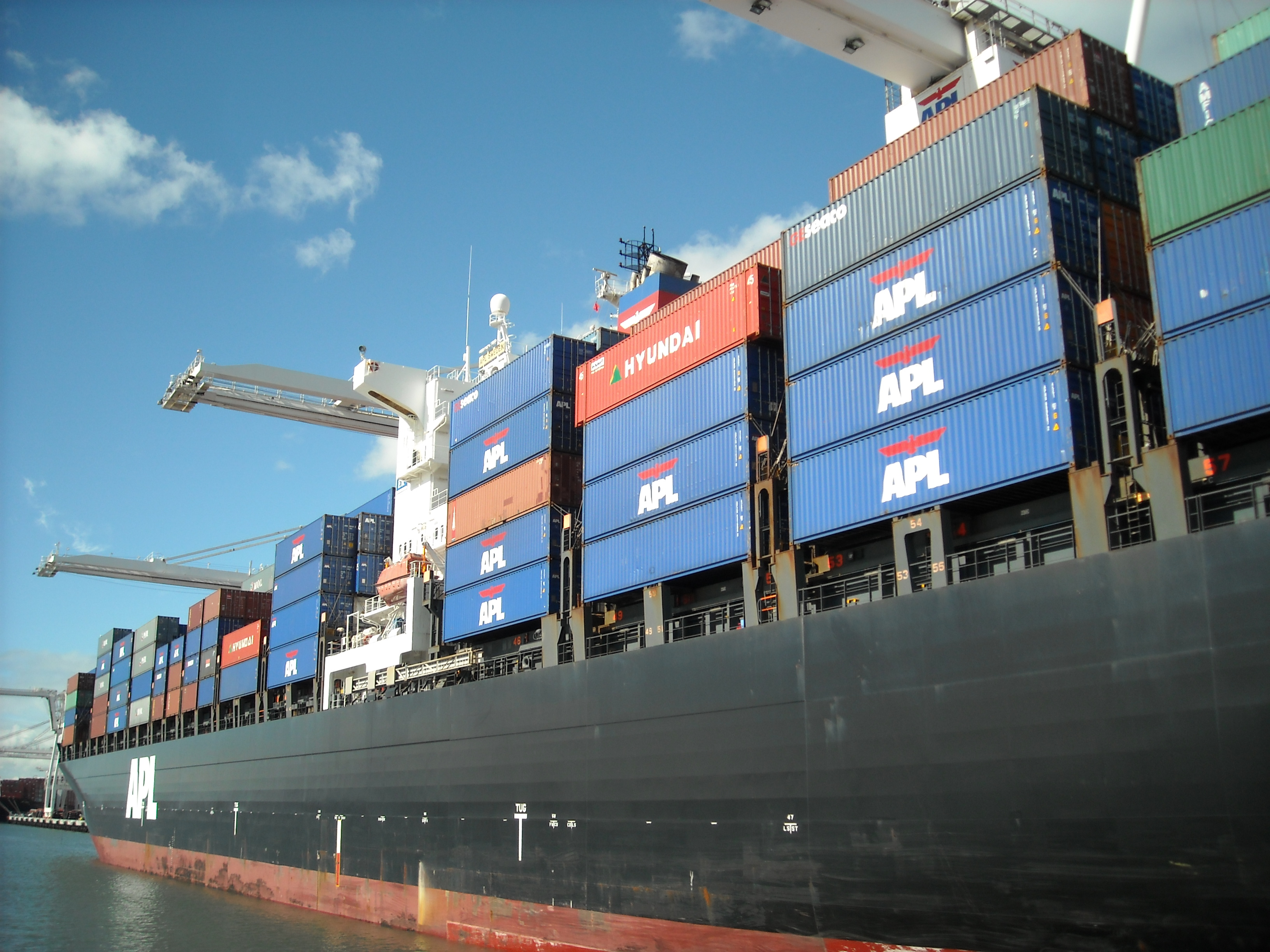 Container Ship APL Sweden